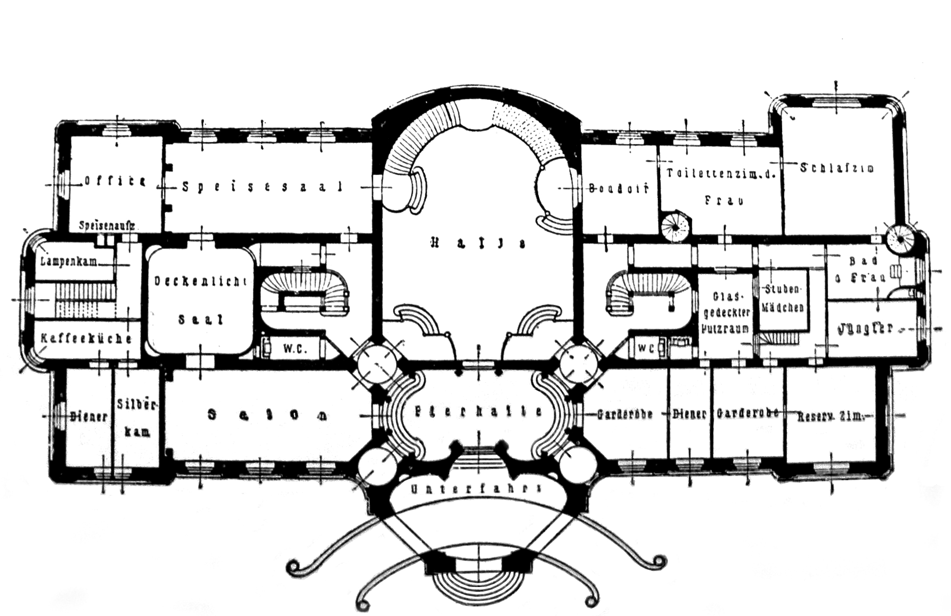 Image of the Palais Lanckoroński in Vienna, which was the private residence of Count Lanckoroński and his vast art collection, which was open to the public. The image is part of a post-card series that were made specifically for the building and its collection.